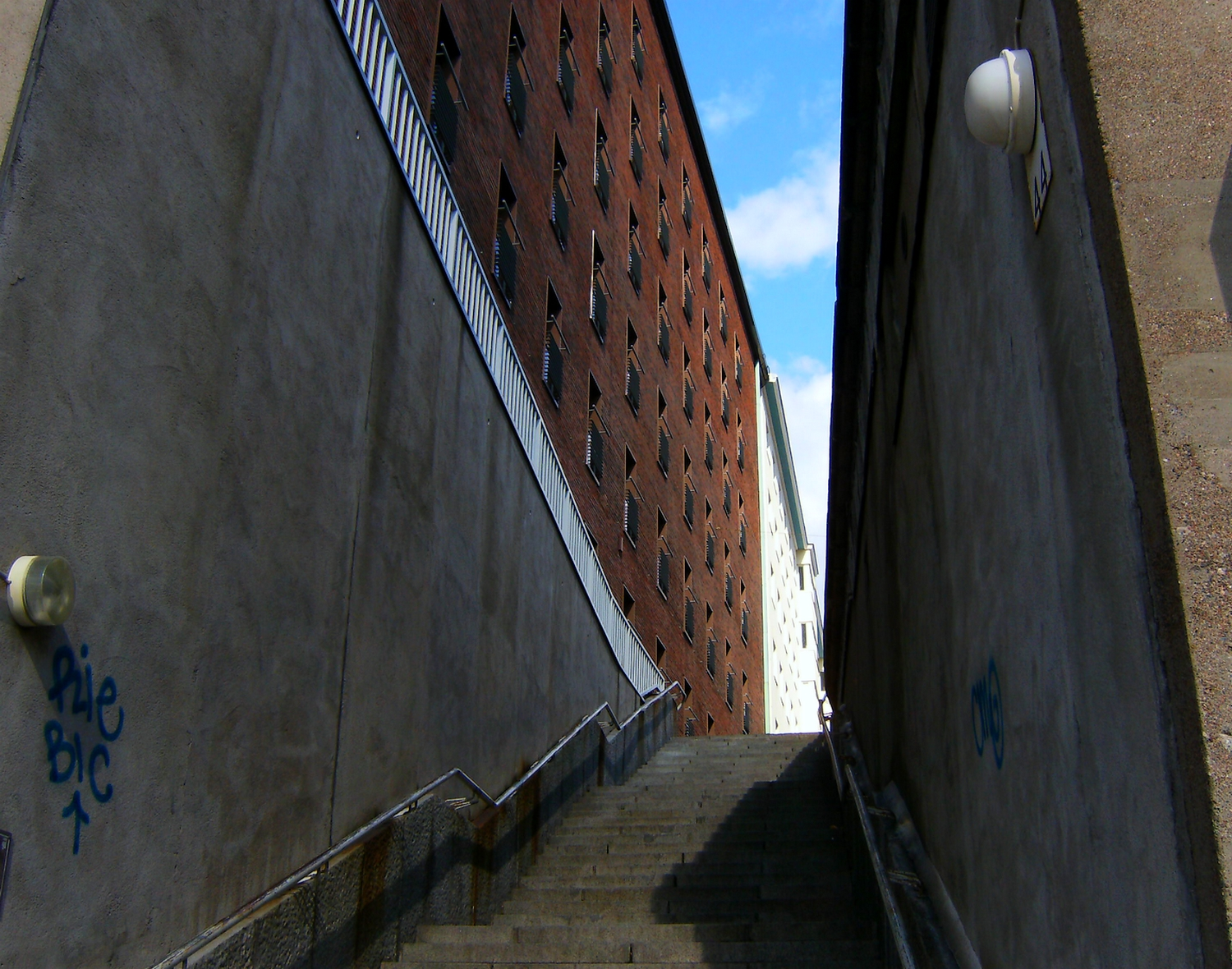 The staircase ascending from Ruoholahdenranta to Lönnrotinkatu, Helsinki, Finland